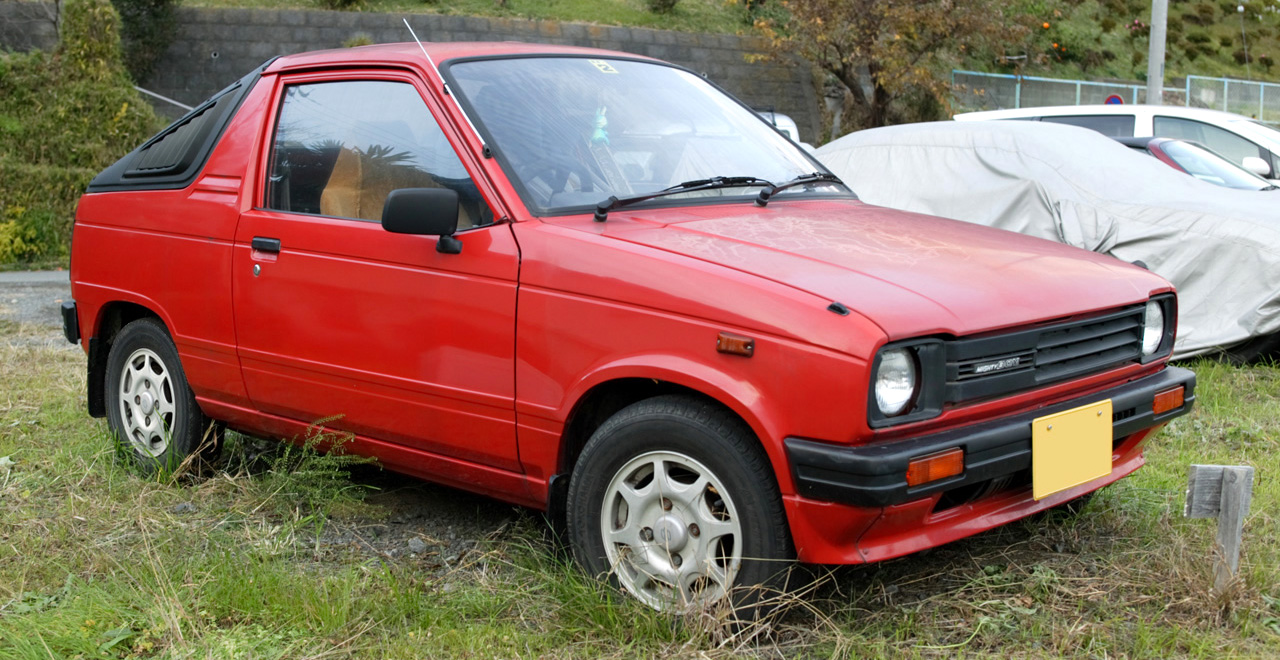 An early Suzuki Mighty Boy, with genuine accessories.